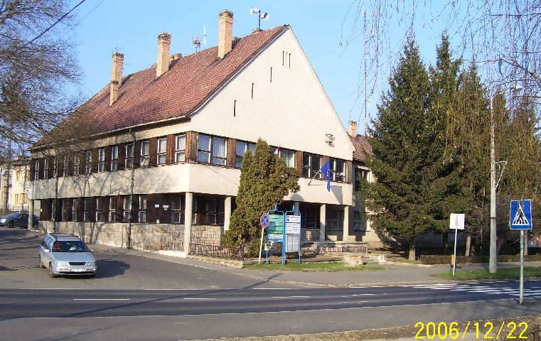 Town hall of Rétság on December 22, 2006.